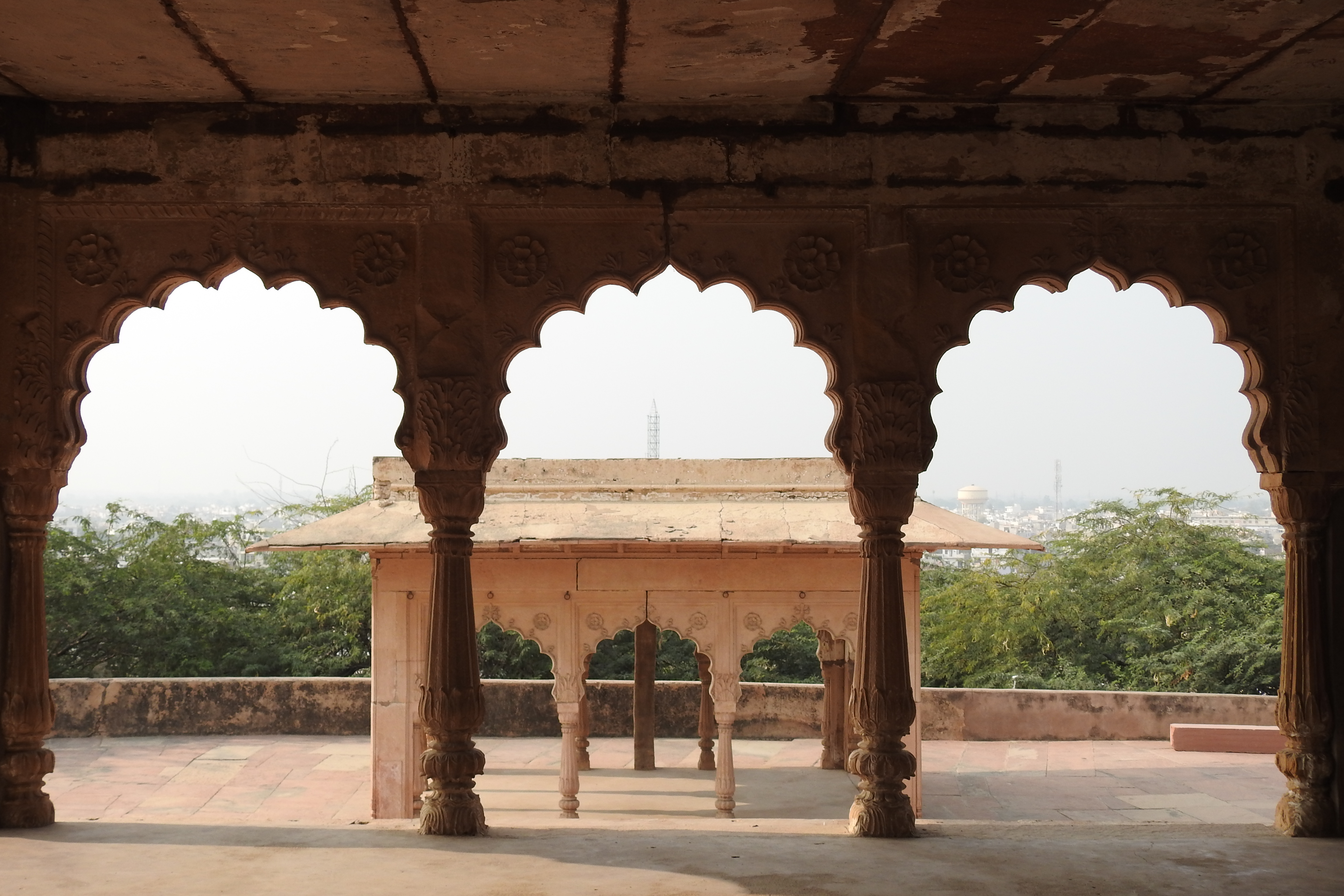 Lohagarh Fort Bharatpur, Rajasthan.